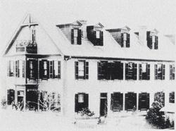 Nagoya Eiwa Gakkou